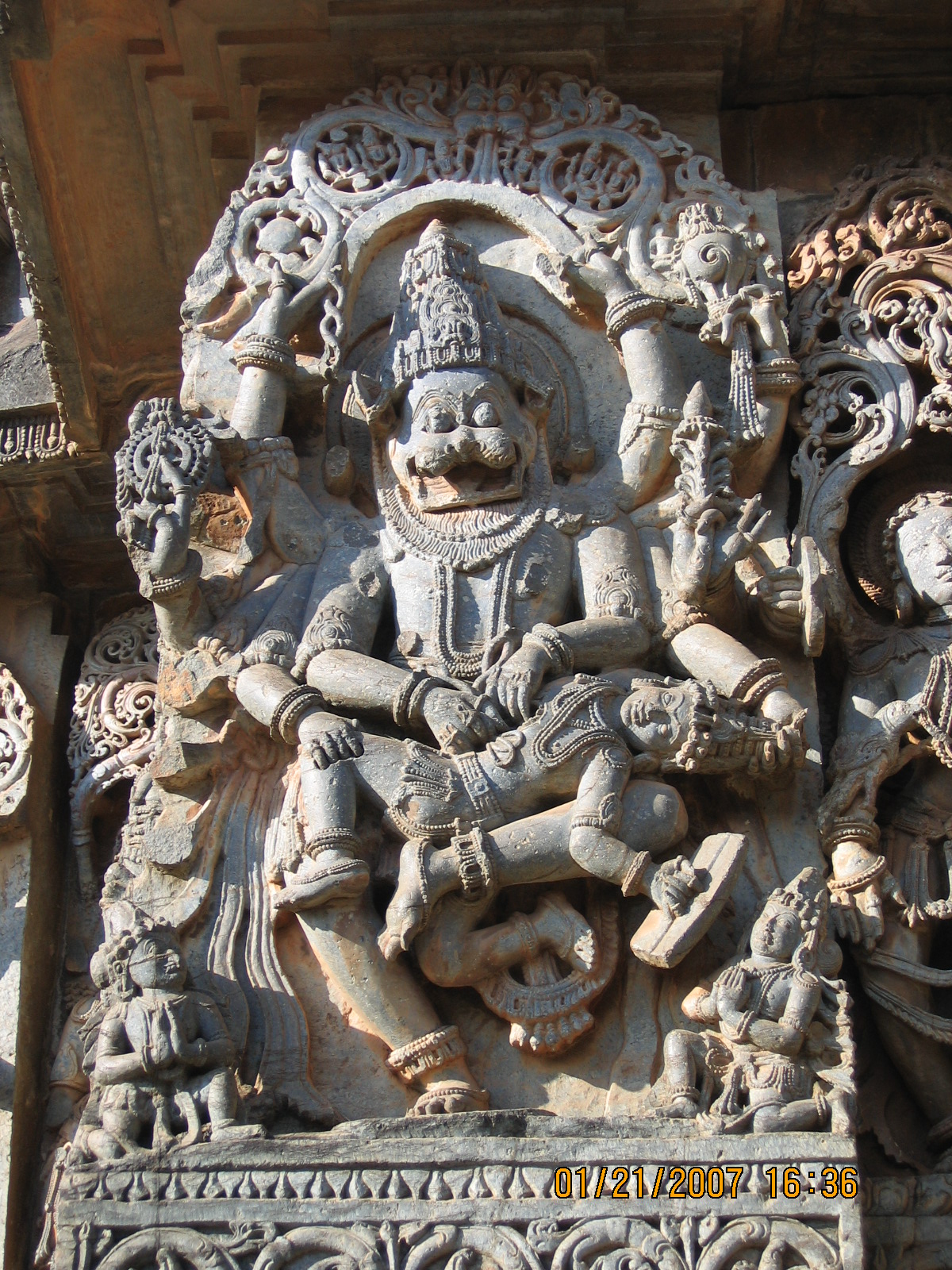 Vishnu Narasimha at Halebeedu